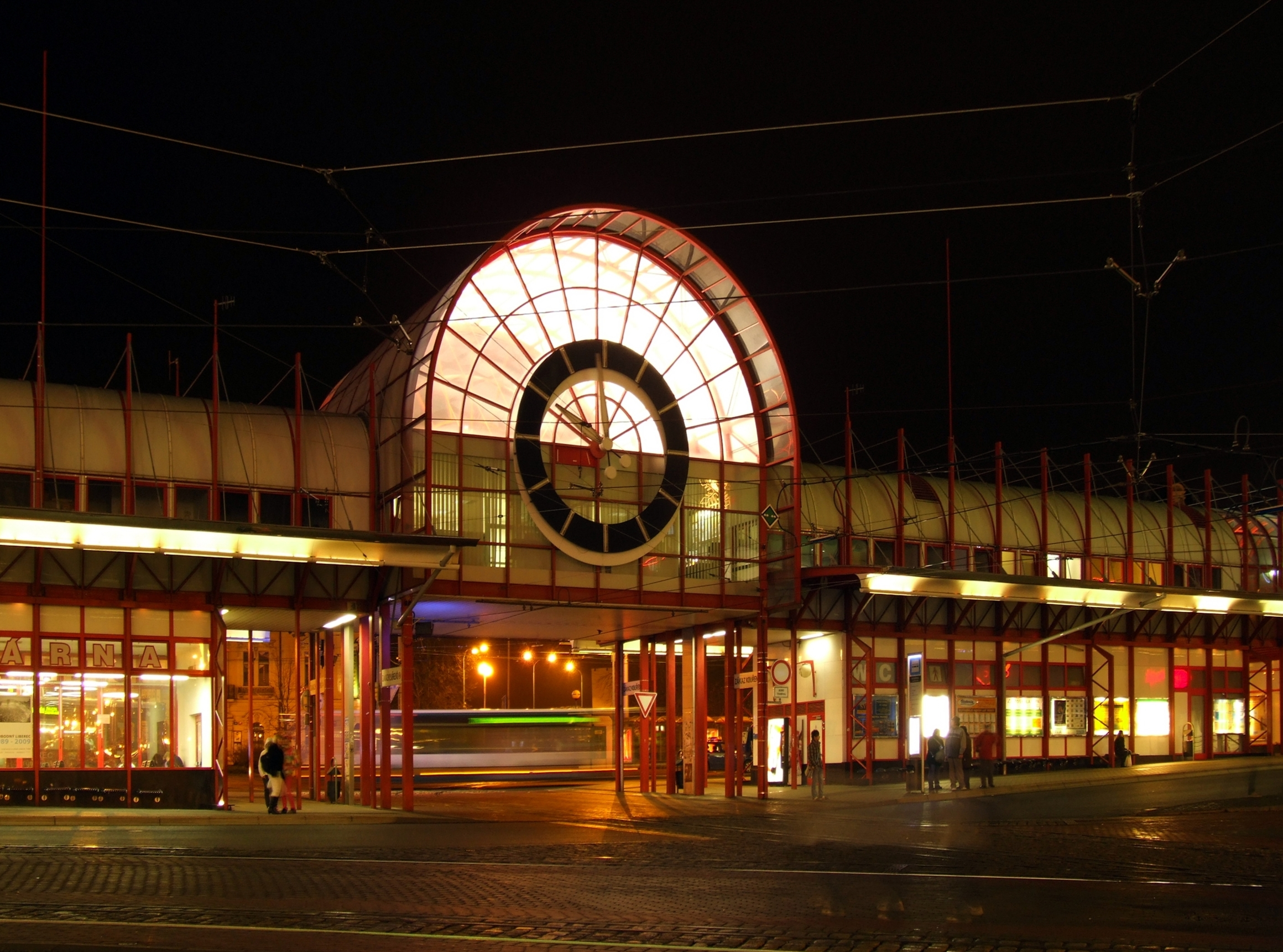 Liberec (Reichenberg) - bus and tram station Fügnerova